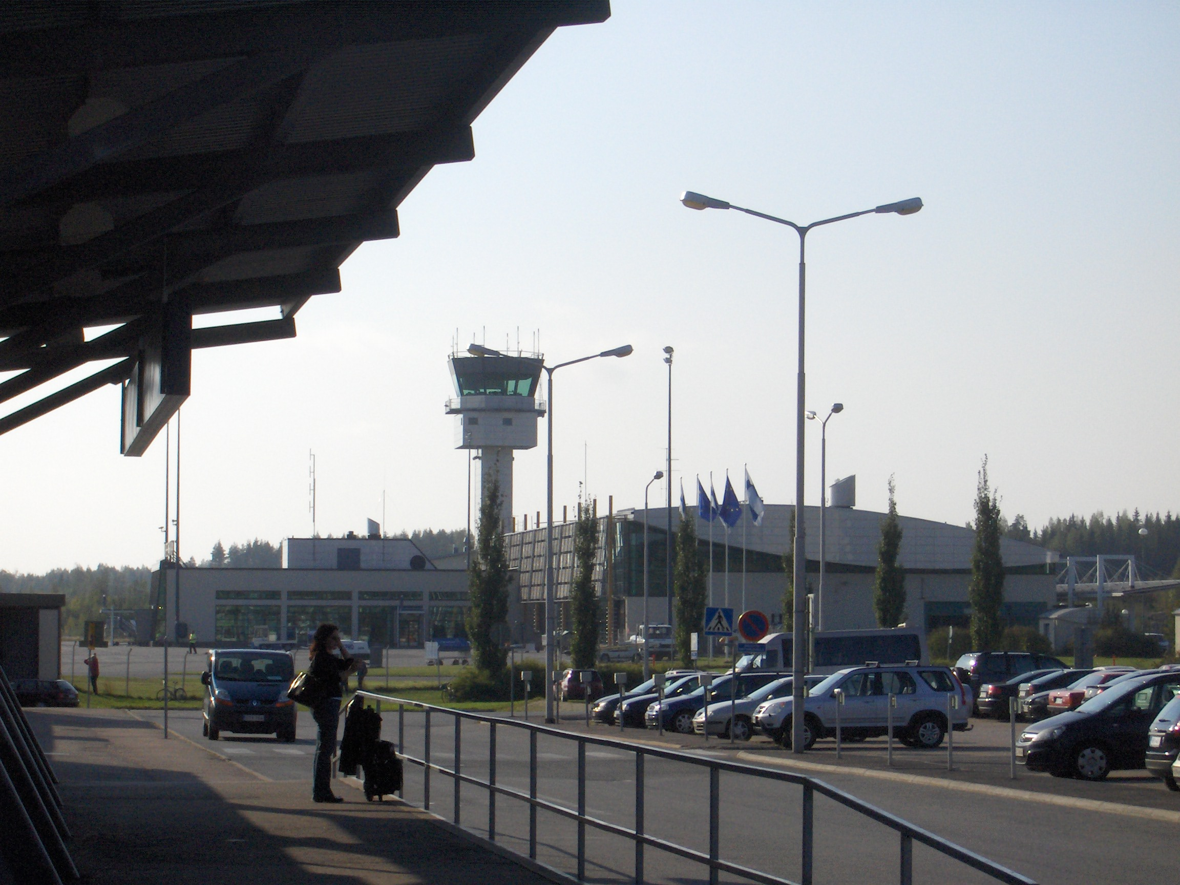 Tampere-Pirkkala Airport